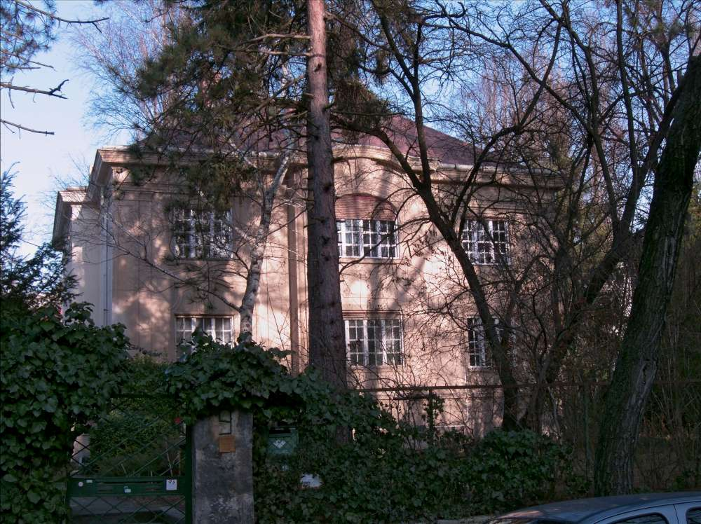 Budapest, 2. distr., Torockó str. 9., Hungary - once Antal Szerb lived here